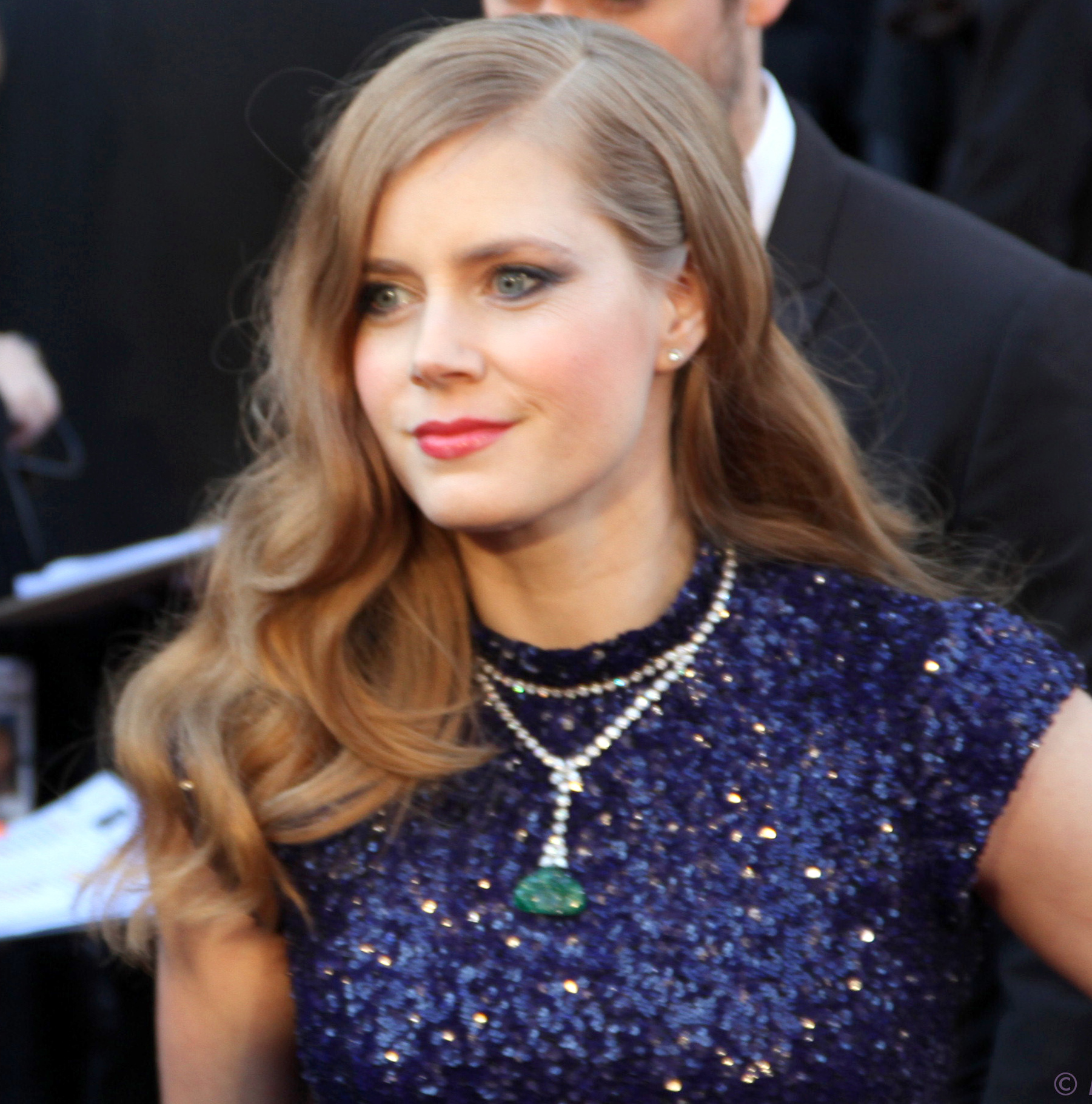 Amy Adams at the 83rd Academy Awards